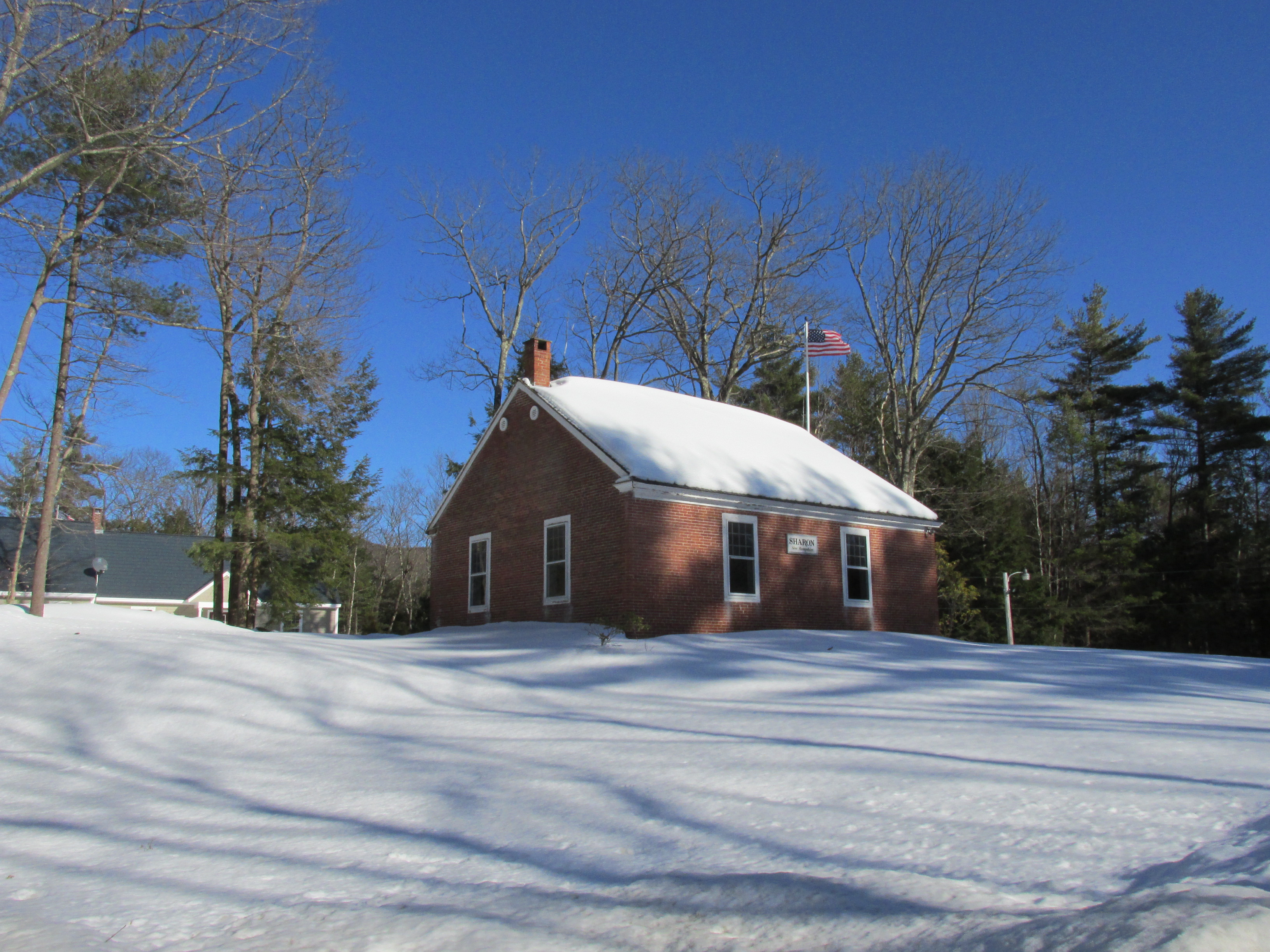 Brick Schoolhouse, Sharon New Hampshire